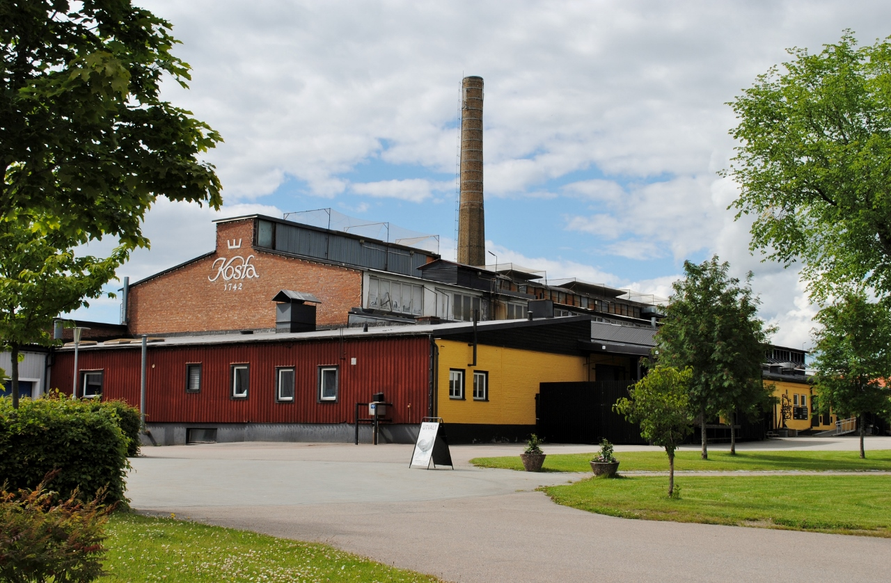 Kosta glassworks.